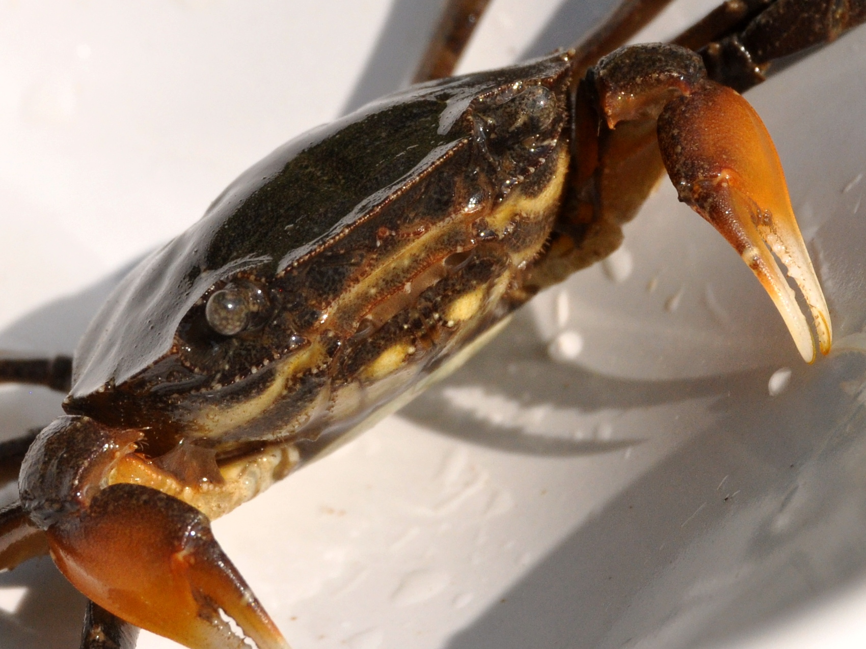 Oceanic paddler crab, Varuna litterata, female, 34 mm CW (carapace width). From Banyumas, Central Java, Indonesia. Close up of frontal region.